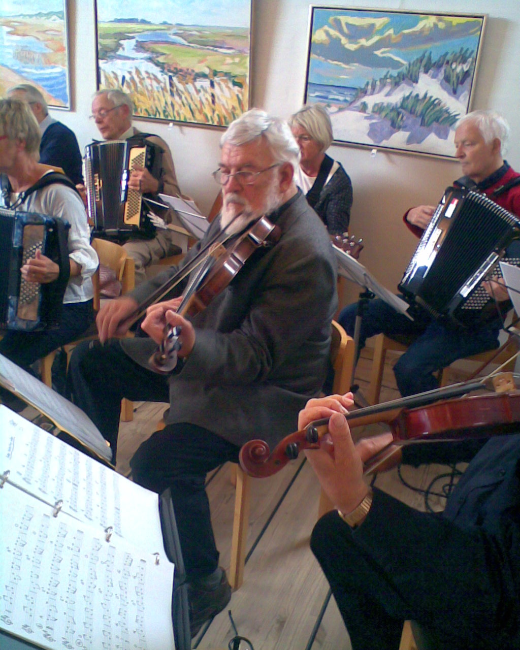 The danish painter, Jørn Bjerre